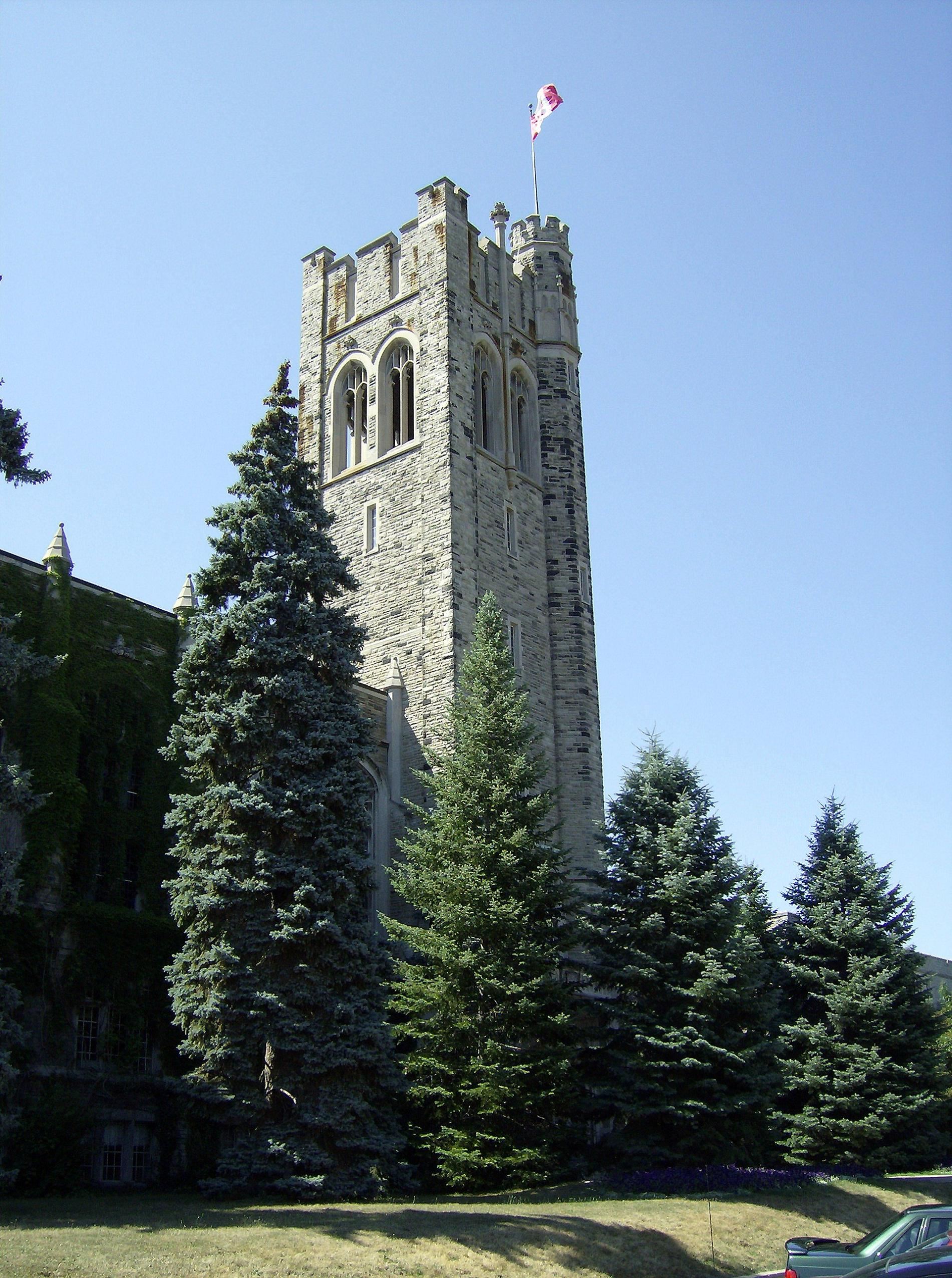 University College at the UNiversity of Western Ontario, London, Canada